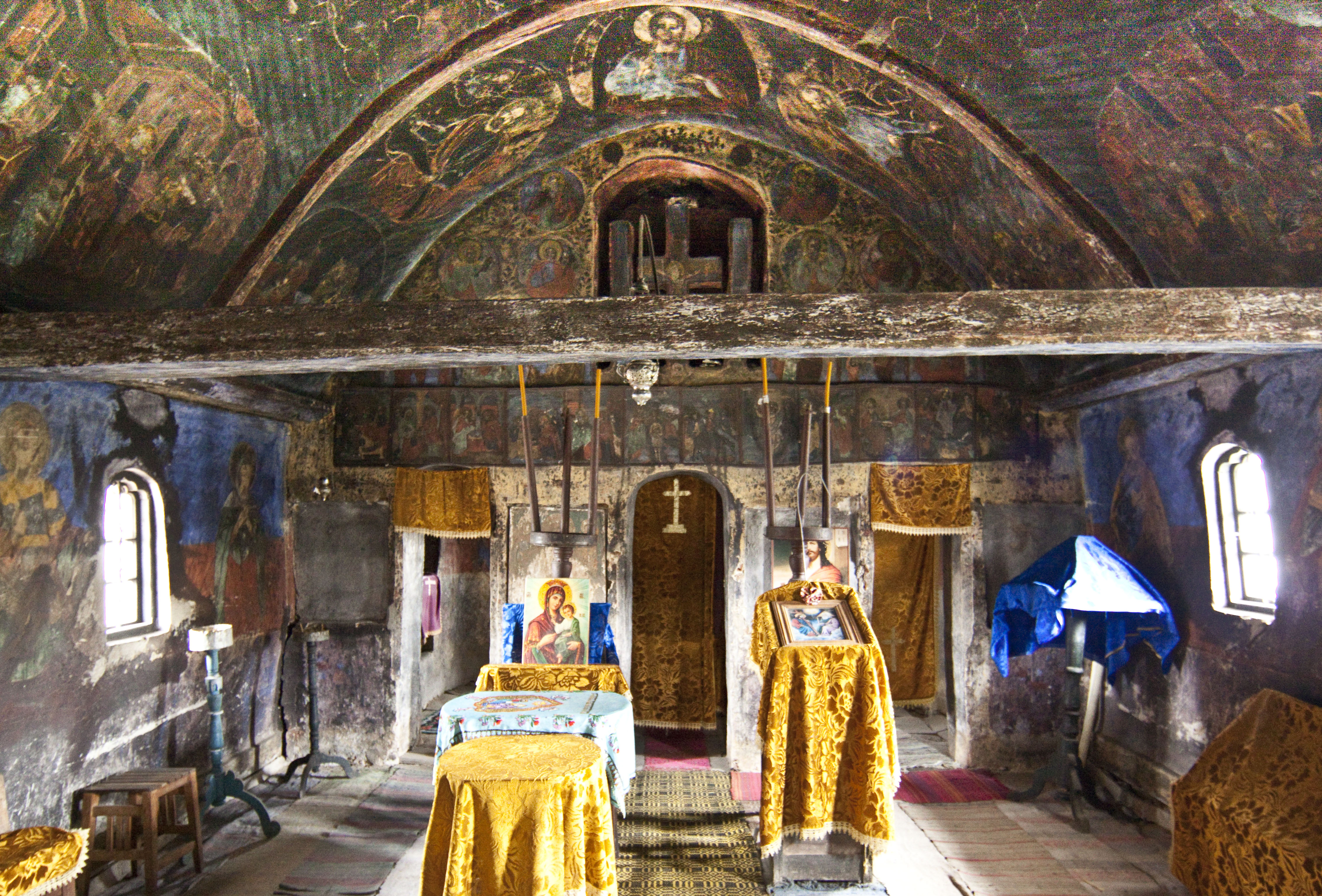 Topliţa, Argeş county, Romania: the wooden church.